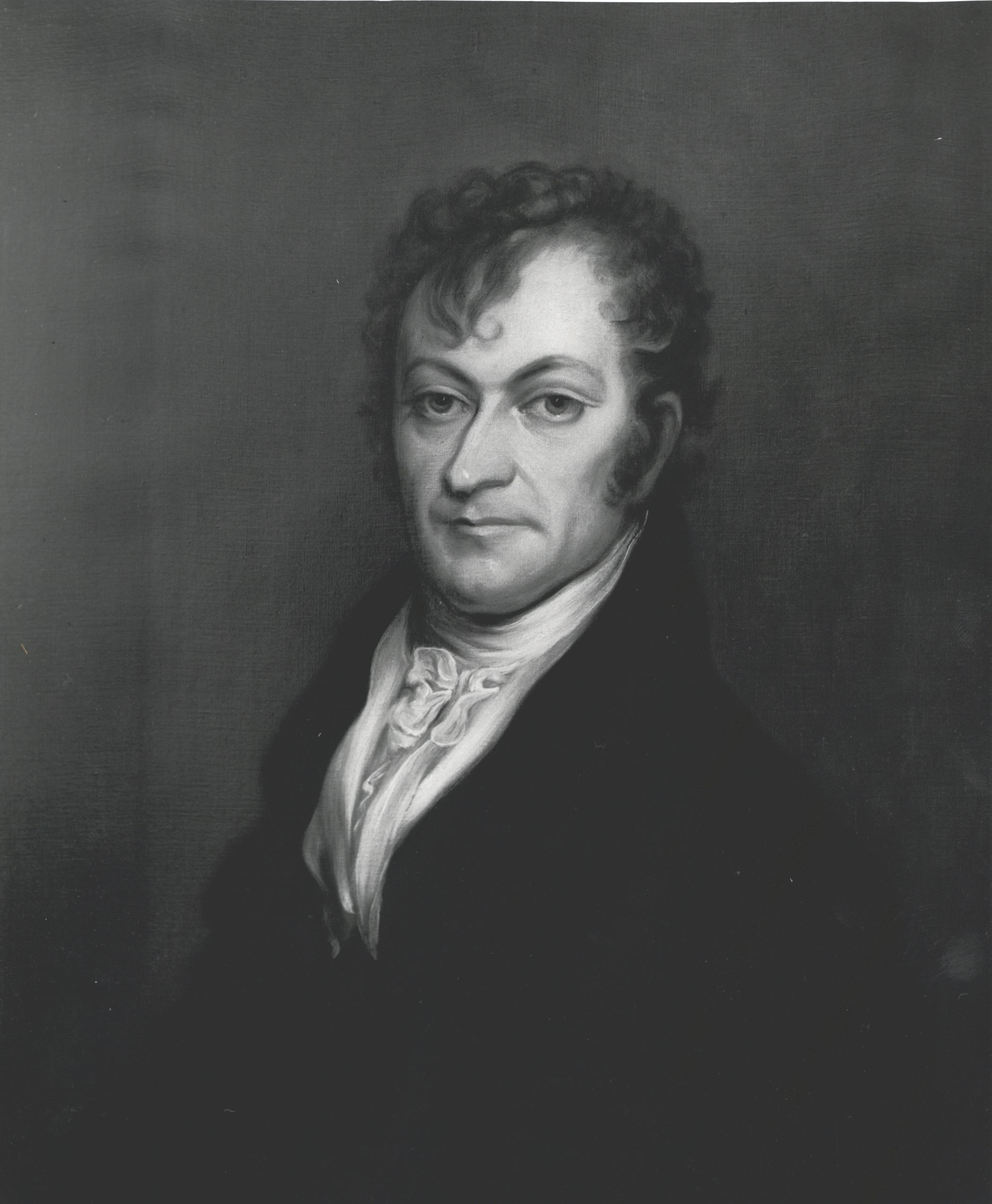 Edward Livingston, U.S. Secretary of State, May 24, 1831 to May 29, 1833